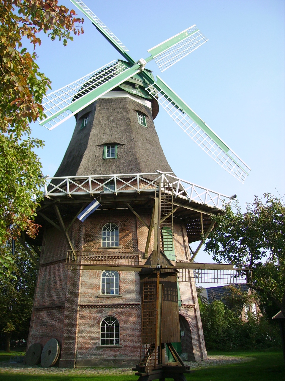 A windmill in Schiffdorf in the Cuxhaven district, Germany